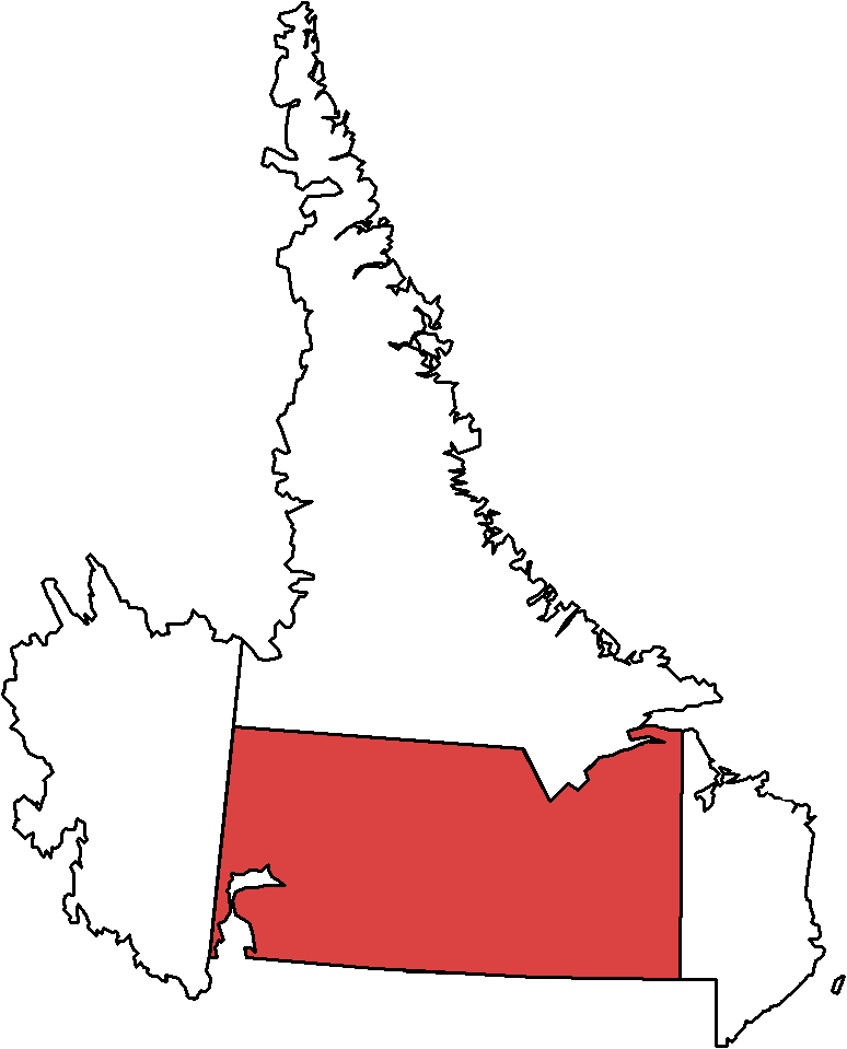 Map based on work by Earl Andrew, from maps used in 2007 elections